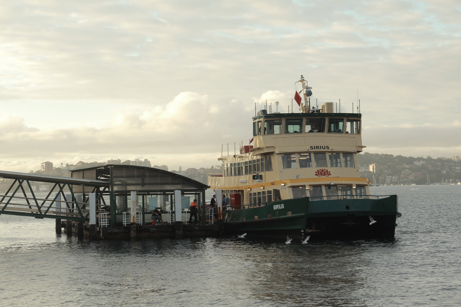 Cremorne Point Ferry Wharf being visited by a ferry.